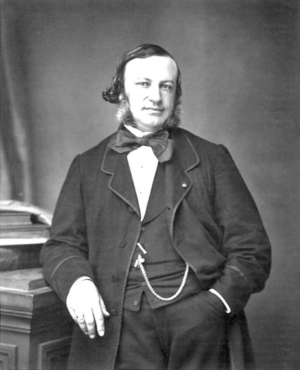 Photograph of Auguste Ambroise Tardieu (1818-1879).